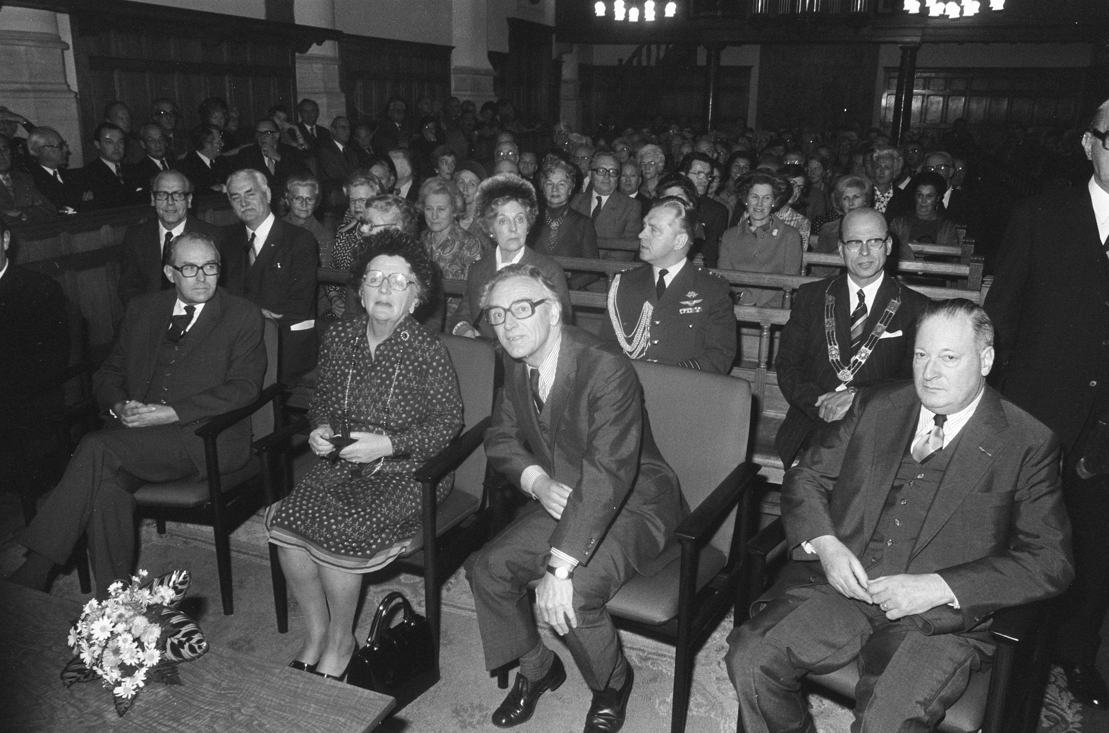 Queen Juliana of the Netherlands at the reunion of the Foundation of the Circle of Friends of former prisoners from the Natzweiler Concentration Camp. Front row, from left to right: Kees Cath, Queen Juliana, Floris Bakels (?), Dolf Cohen (Leiden rector). Second row right: Leiden mayor Aat (A.J.) Vis (?). Academy Building Leiden University, 25 October 1975